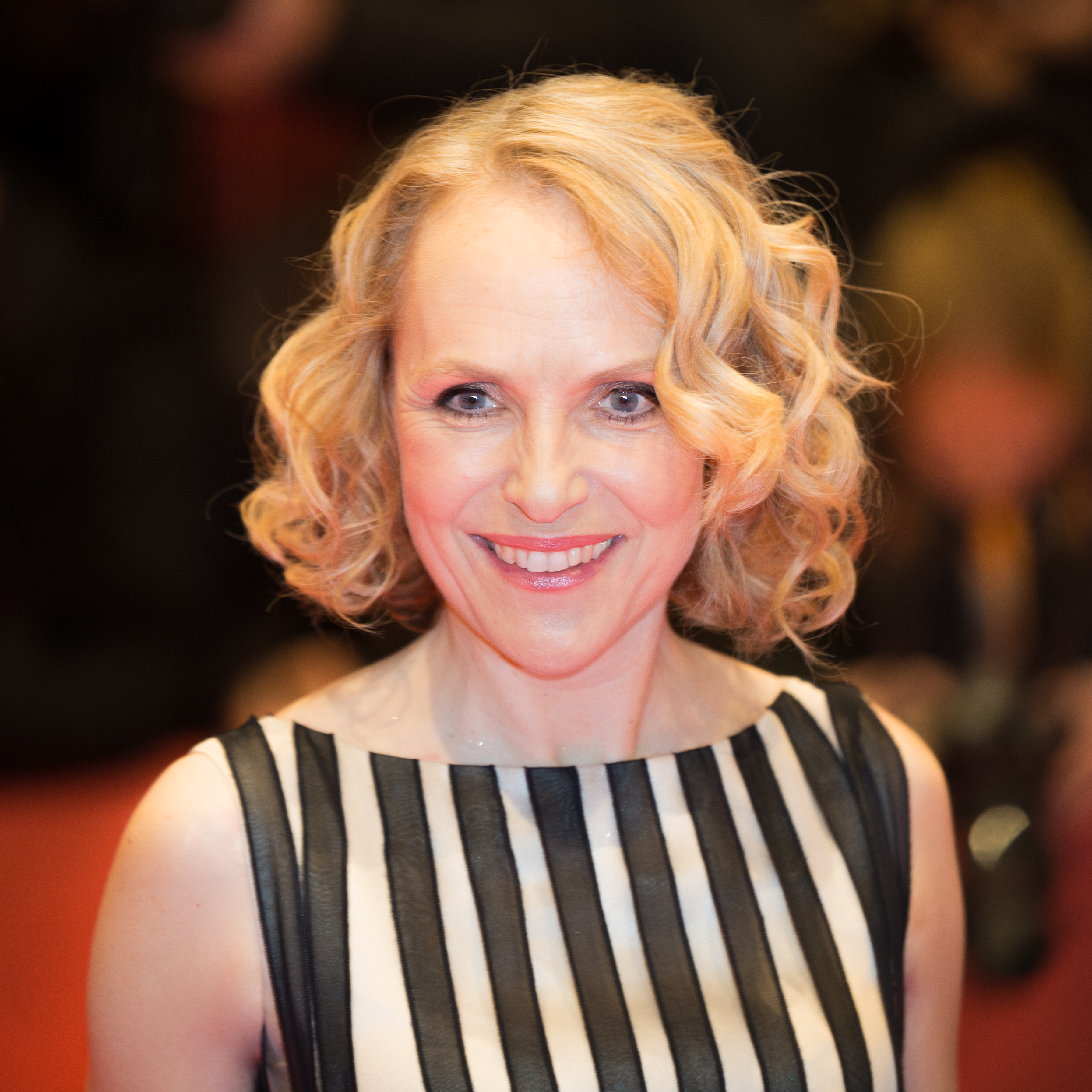 Juliane Köhler on the red carpet of the Berlinale 2017 opening film